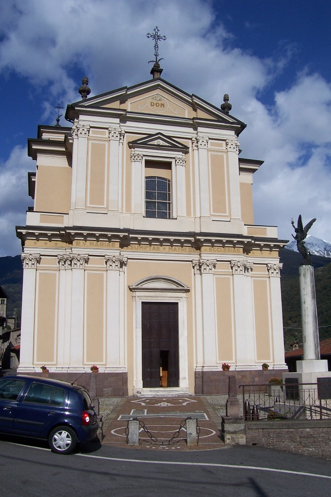 Church of the Assumption of St Mary. Sellero, Val Camonica